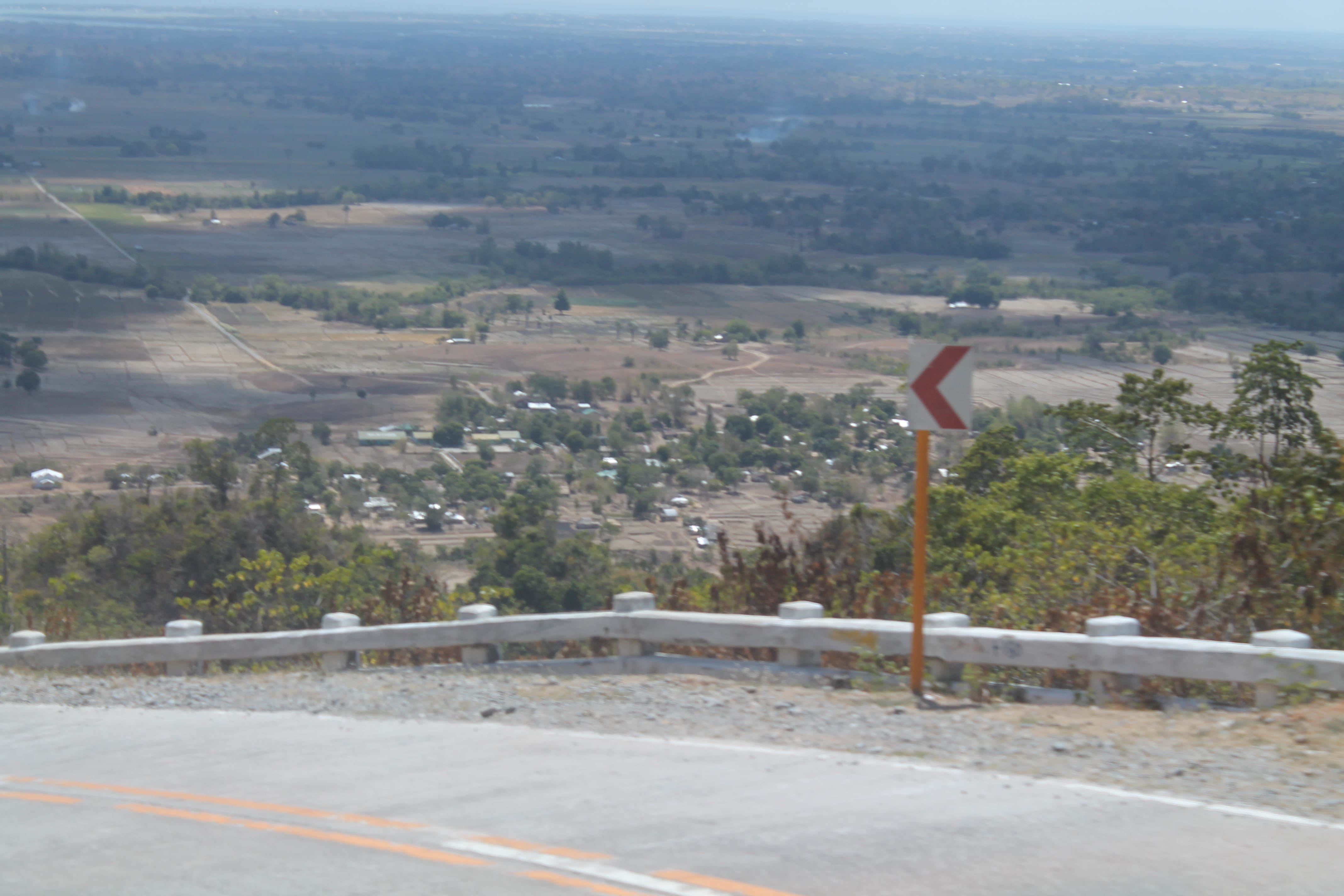 View of a small settlement away from the Magsaysay town center.